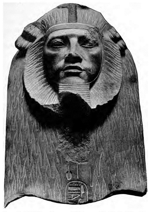 Front view of one of the so-called "Hyksos sphinxes" of Amenemhat III, later usurped by Apophis and much later by Psusennes I (the partial cartouche, bottom). From Tanis.